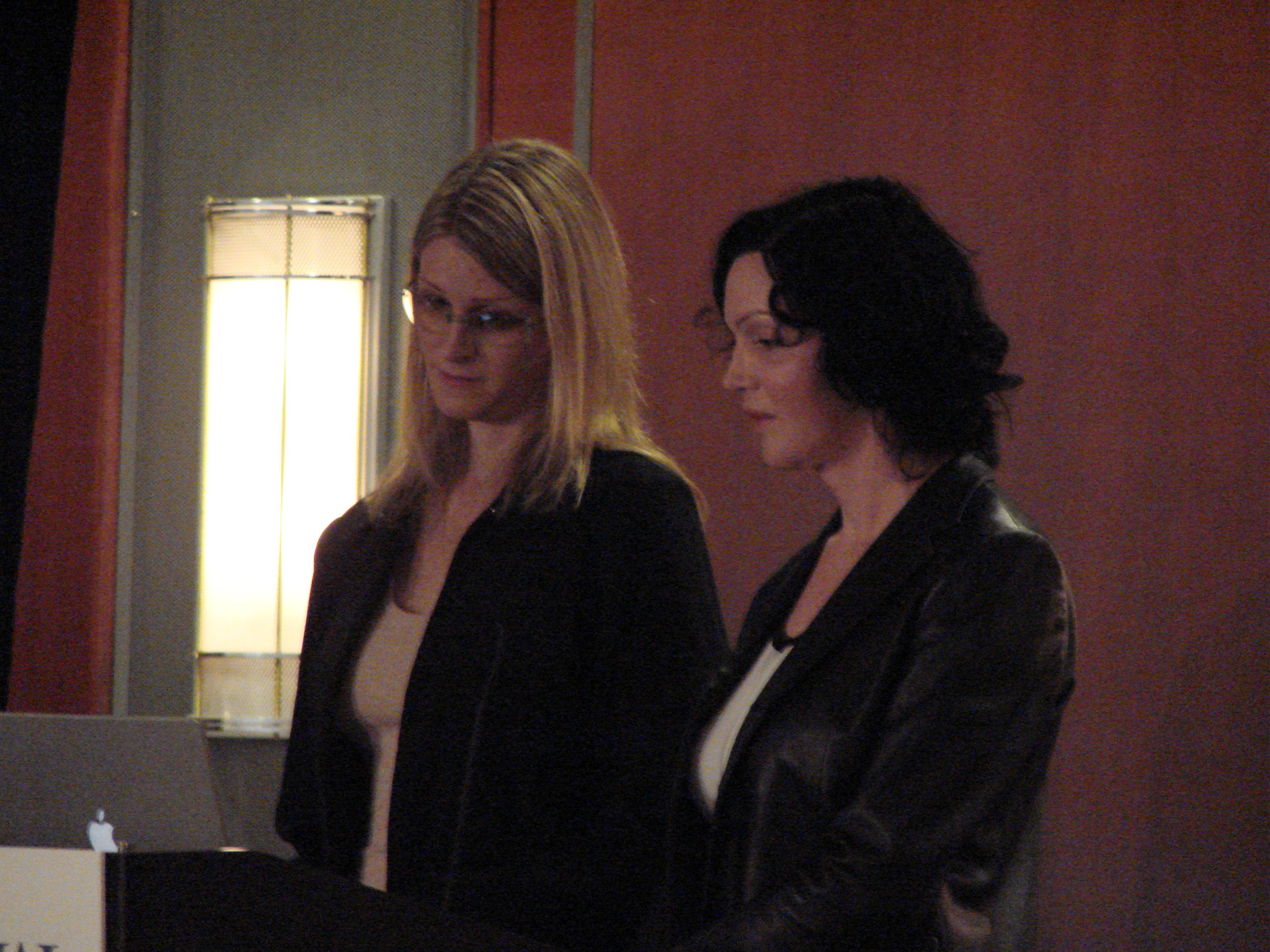 Featured Session on transgender topics featuring Andrea James and Calpernia Addams at the 2006 Out & Equal Workplace Summit.